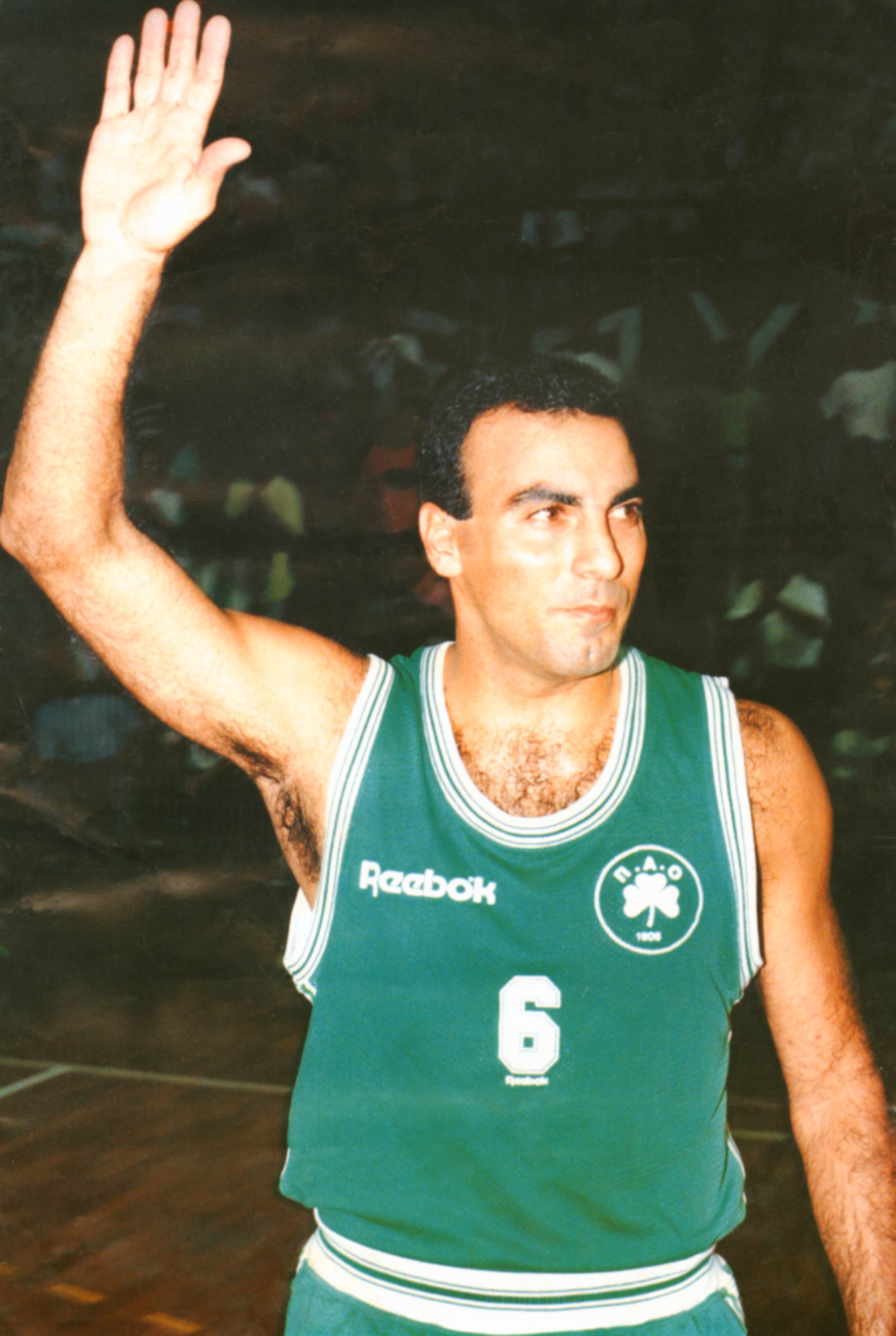 Nikos Galis playing basketball stadium in 1992 September.